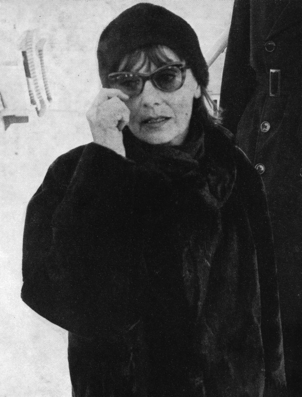 Photograph of the Swedish-American actor Greta Garbo visiting Stockholm, Sweden.